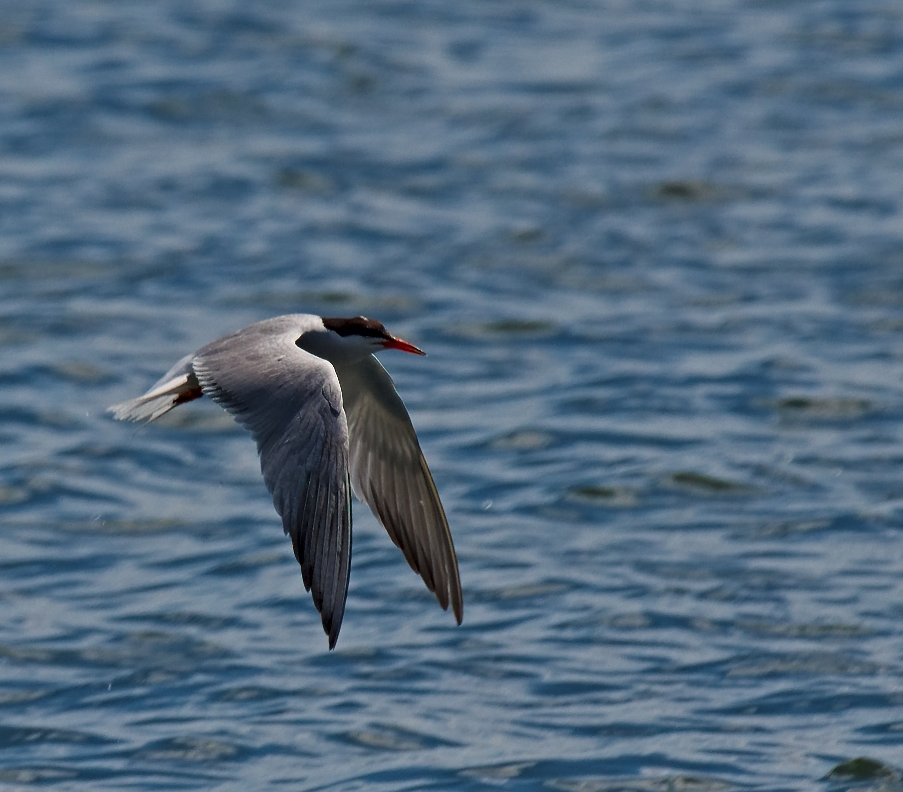 Great reed warbler - Acrocephalus arundinaceus. Taken by the Scharmützelsee in Bad Saarow,, Brandenburg, Germany.